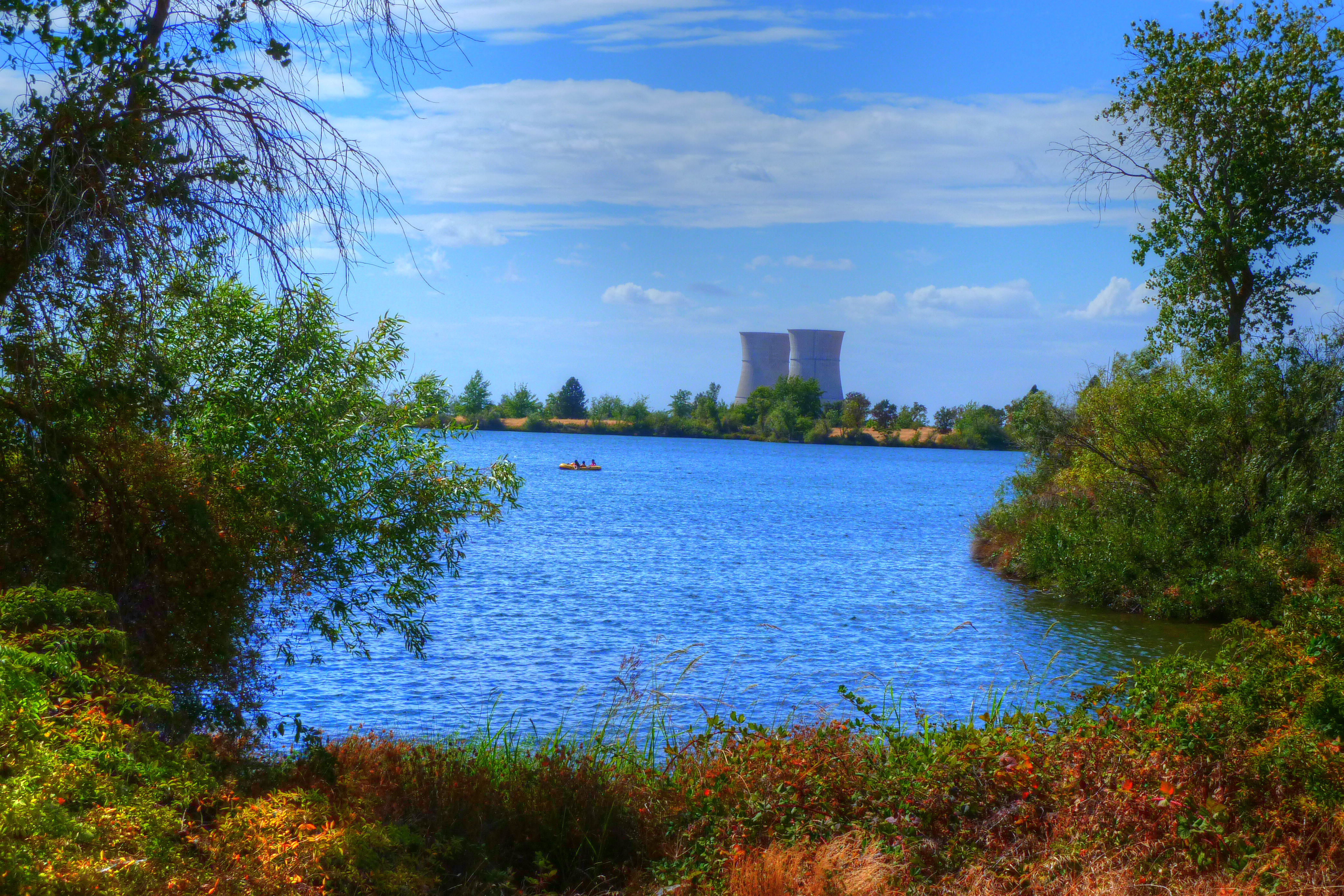 Rancho Seco Lake taken from shoreline with nearby nuclear power plant in background.